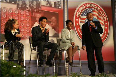 Claude Allen, Assistant to the President for Domestic Policy, right, leads a session of the program, Thursday, Oct. 27, 2005 at Howard University in Washington, during the White House Conference on Helping America's Youth.